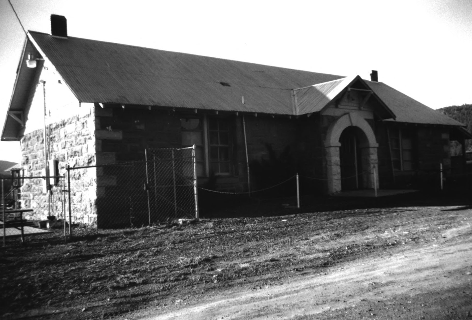 Alpine Elementary School